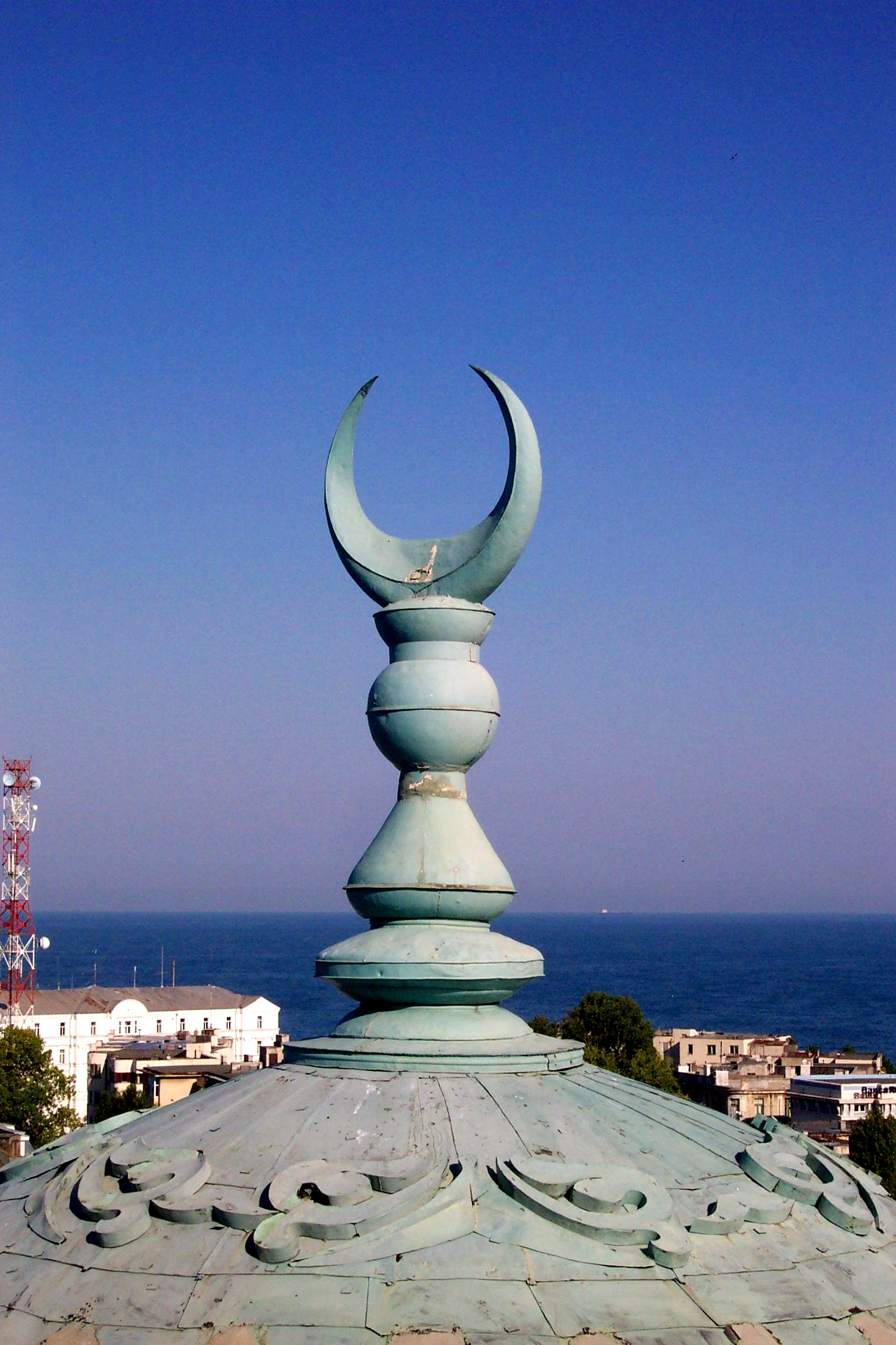 A picture taken of the roof of a mosque in Constanta, Romania.